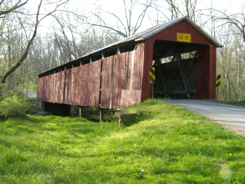 Charlton Mill Road Bridge, north of Xenia, Ohio